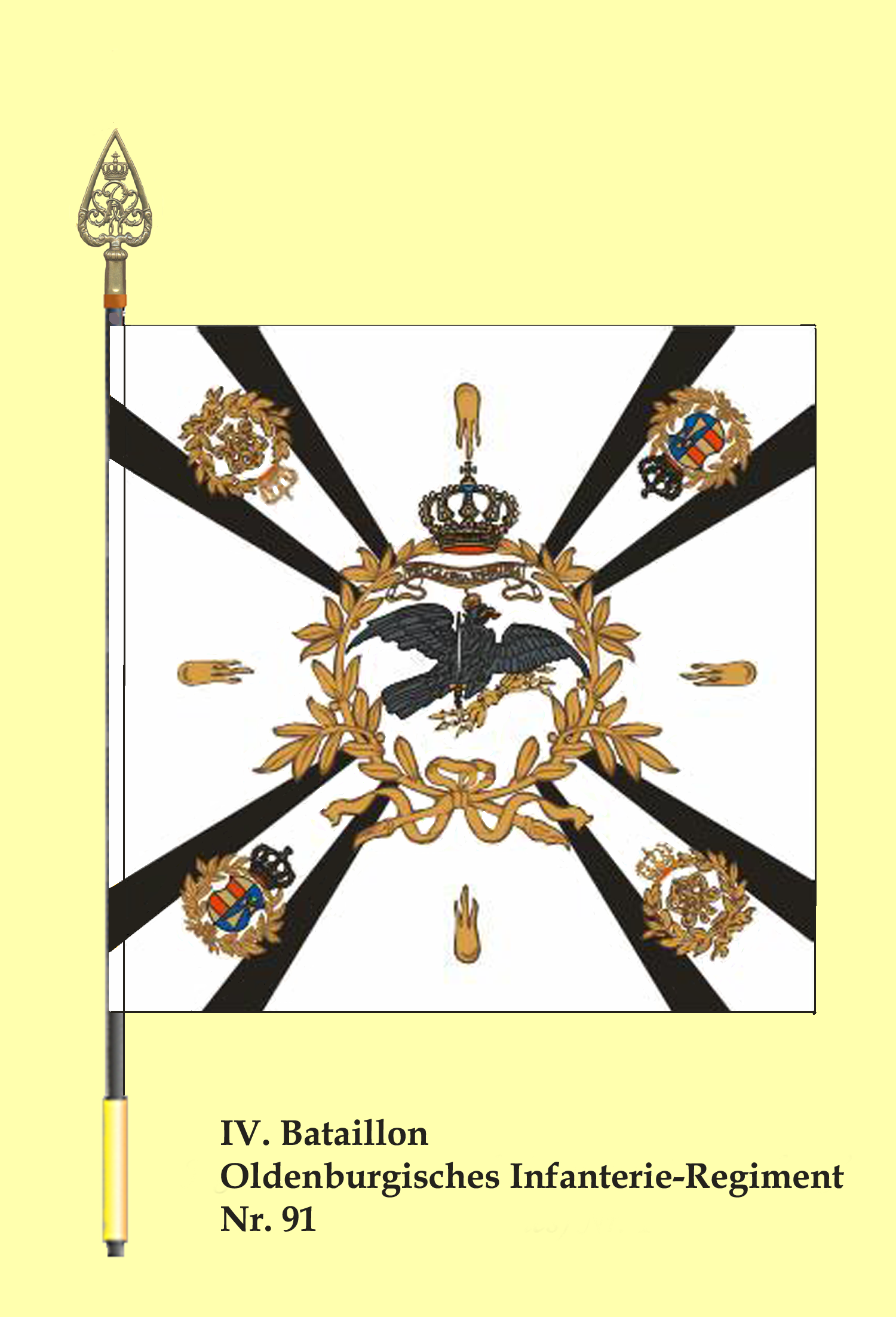 Colors of the IV. Battalion of the prussian 91st Infantry Regiment